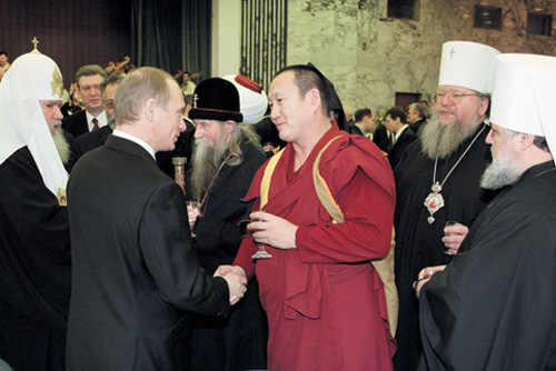 MOSCOW. President Vladimir Putin and the clergy at a reception dedicated to Constitution Day.